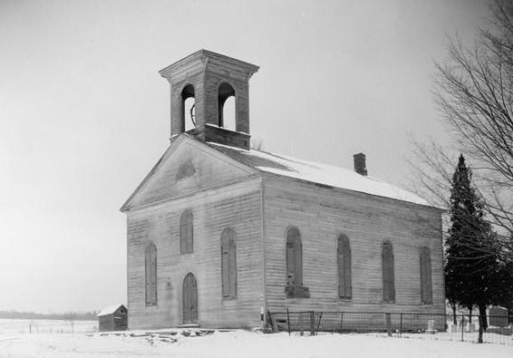 Baptist Church, State Route 148, Charleston (Montgomery County, New York) cropped